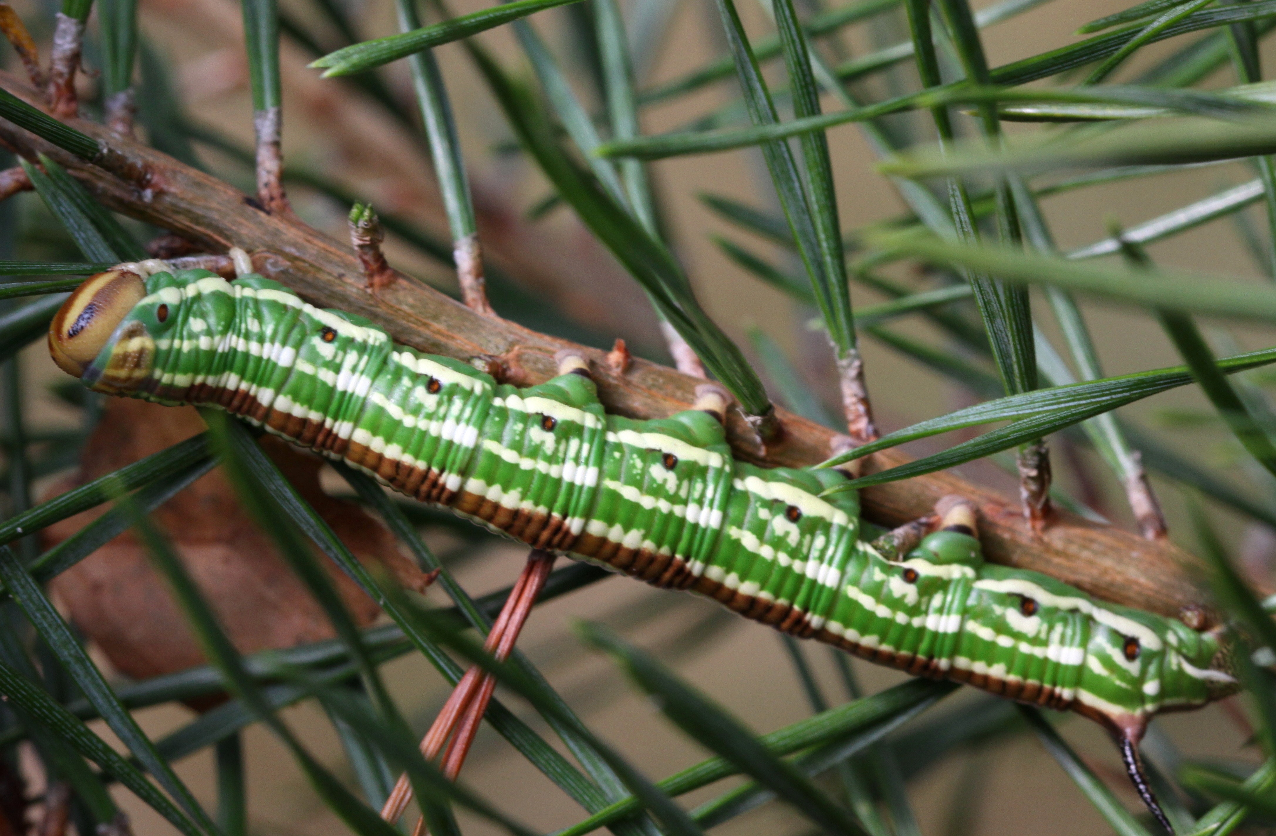 the pine hawk-moth larvae ( "Sphinx pinastri" )